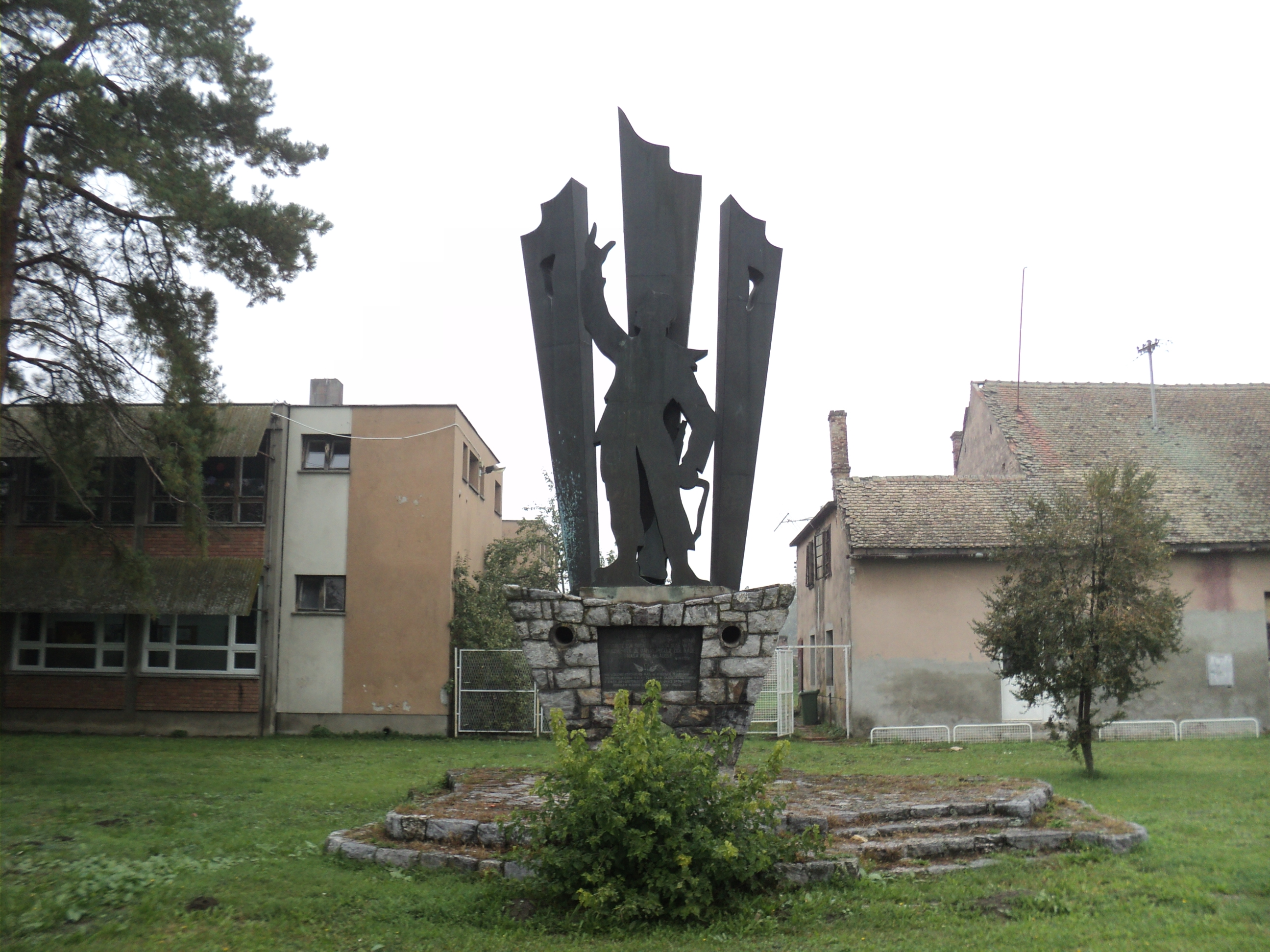 Monument to the fallen Yugoslav partisans' fighters and the victims of fascism from Čepin near Osijek. Built in 1961.